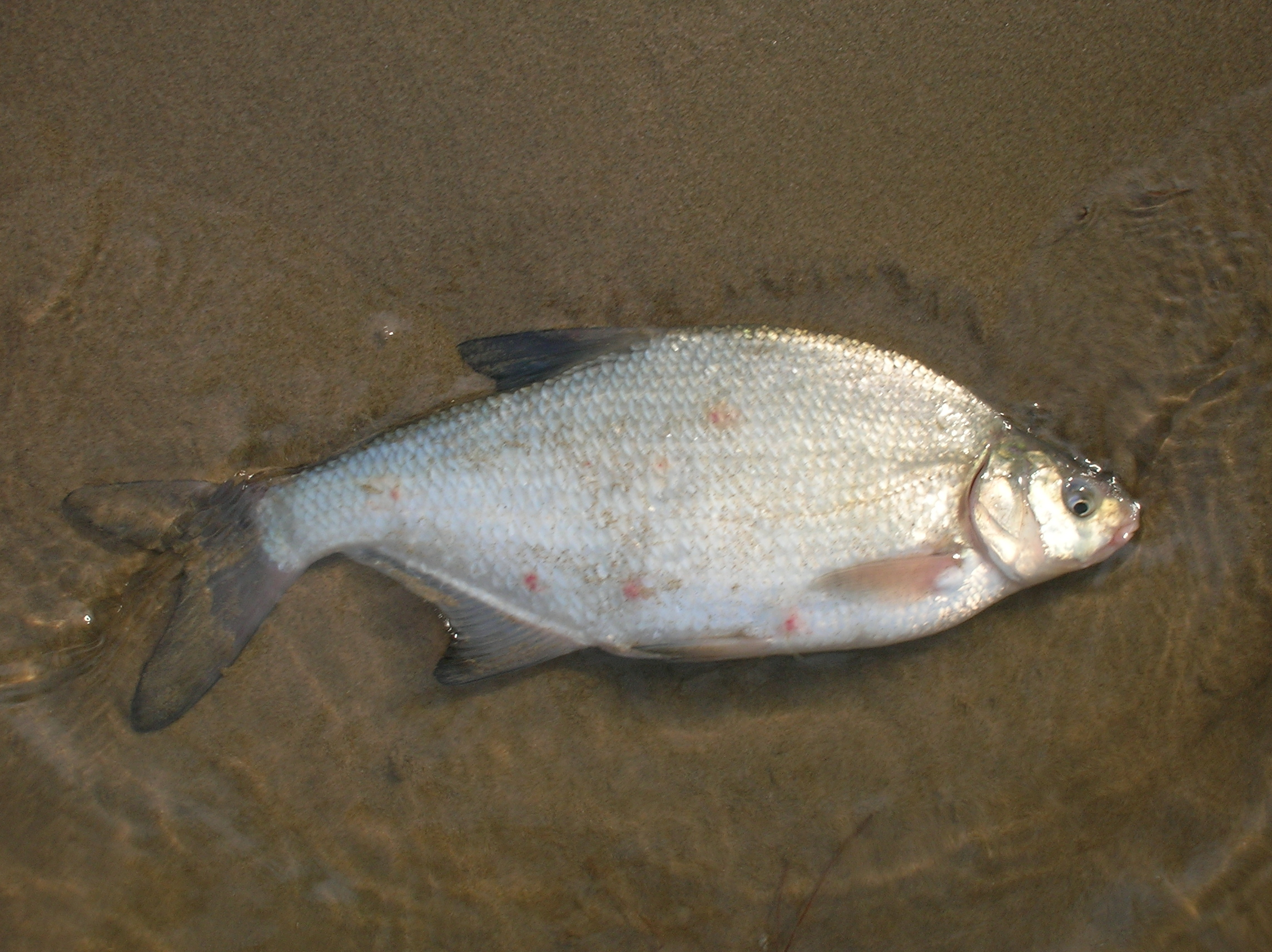 Abramis brama from the river Waal the Netherlands, the lesions are probably due too spawning on the stony edges.